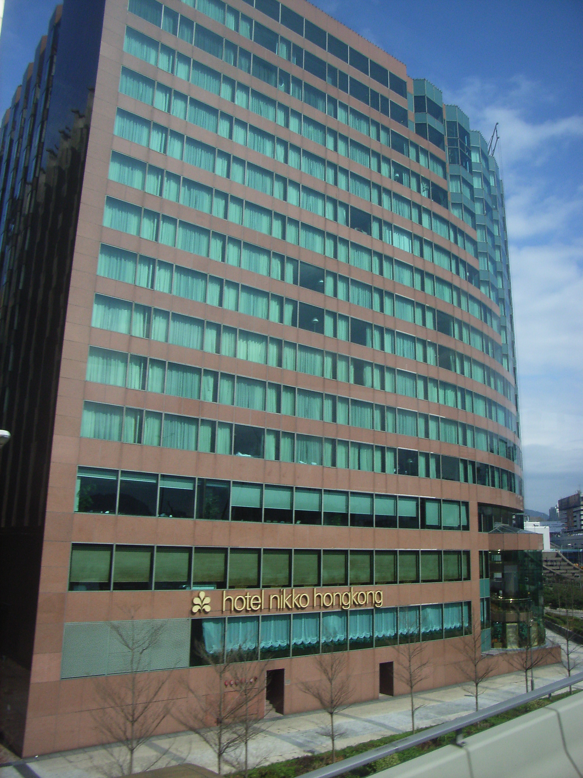 香港日航酒店(Hotel Nikko Hong Kong )，位處於zh:香港zh:九龍zh:尖沙咀東部zh:麼地道72號。 Photo created by User:HungBEER.